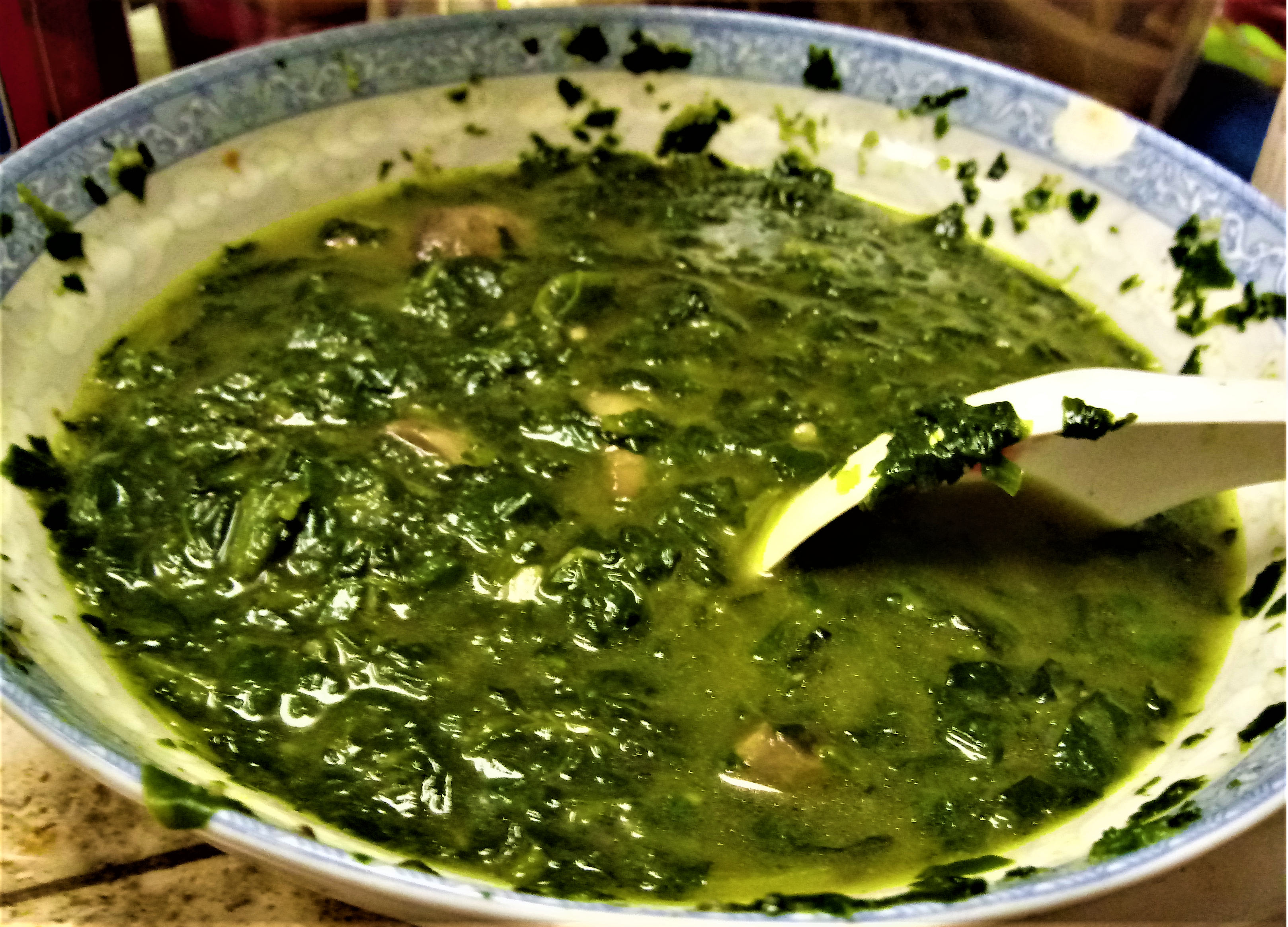 A bowl of Patriotic Soup, served to Emperor Bing in a Buddhist monastery at Chaoshan region during the final year of China's Song dynasty centuries ago around 1278, when he, his family, and Song court and military members were fleeing from the Mongols. Its main ingredients are leaf vegetable (spinach), edible mushrooms, and vegetable broth. This version of the soup was the uploader's attempt to recreate the dish more closely to as it was first developed in 1278 due to using the vegetable broth and spinach (the actual leaf vegetable ingredient the preparers used back then was not known, but obviously not with sweet potato leaves due to there were no sweet potatoes back then until the 16th century during the Ming dynasty, and the monks at that time would never use chicken or beef broth for the soup). The uploader himself is a Chaoshanese descent. Recipe can be found here, in Chinese.[1] However, the uploader has made his own simplified recipe of this dish and written it in English. Ingredients: 1.125 lb. frozen chopped spinach 1 teaspoon cooking oil 1.5 cups vegetable broth 5 straw mushrooms, cut in halves. 1/2 teaspoon salt and sesame oil 1 teaspoon cornstarch 1. Bring a saucepan of water to boil over high heat, add the frozen chopped spinach, and blanch for 5 minutes. Drain and rinse under cold water. 2. Heat the oil in a wok or skillet over medium heat, add the spinach and sit-fry for 2 minutes. Transfer the spinach to a saucepan with vegetable broth, then add the mushrooms, sesame oil, and salt. Bring to a boil over high heat for 5 minutes. 3. Mix the cornstarch with 1.5 tablespoon water in a small bowl and stir this mixture into the soup. Bring to a boil, stirring, for seconds to thicken the soup. Adjust the seasoning to taste by adding dashes of soy sauce, salt, and white pepper if desire, then serve. Serves: 2-3